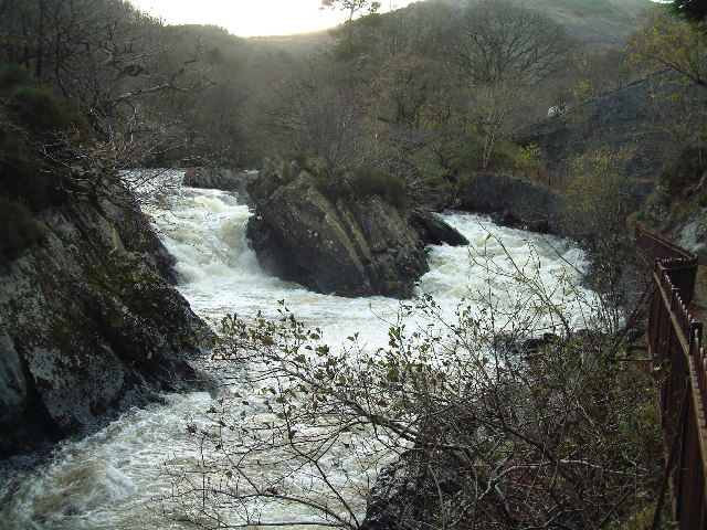 The Falls of Leny. It is easy to see why the river is called the Garbh Uisge (rough water)